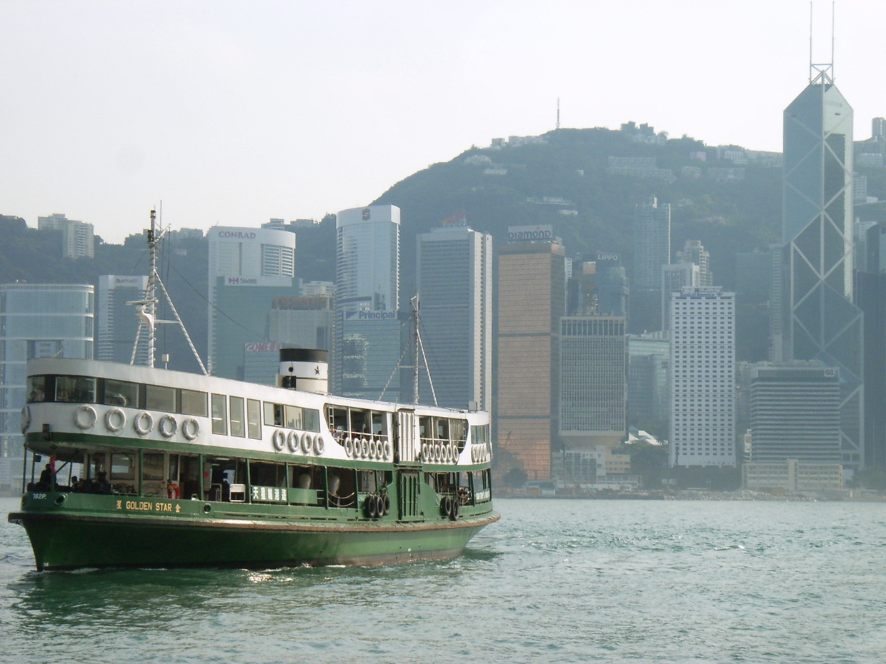 Shipname: Golden Star Type: Passenger Ship Built: 00.1989 IMO number: 8951384 Photo created by User:HungBEER.